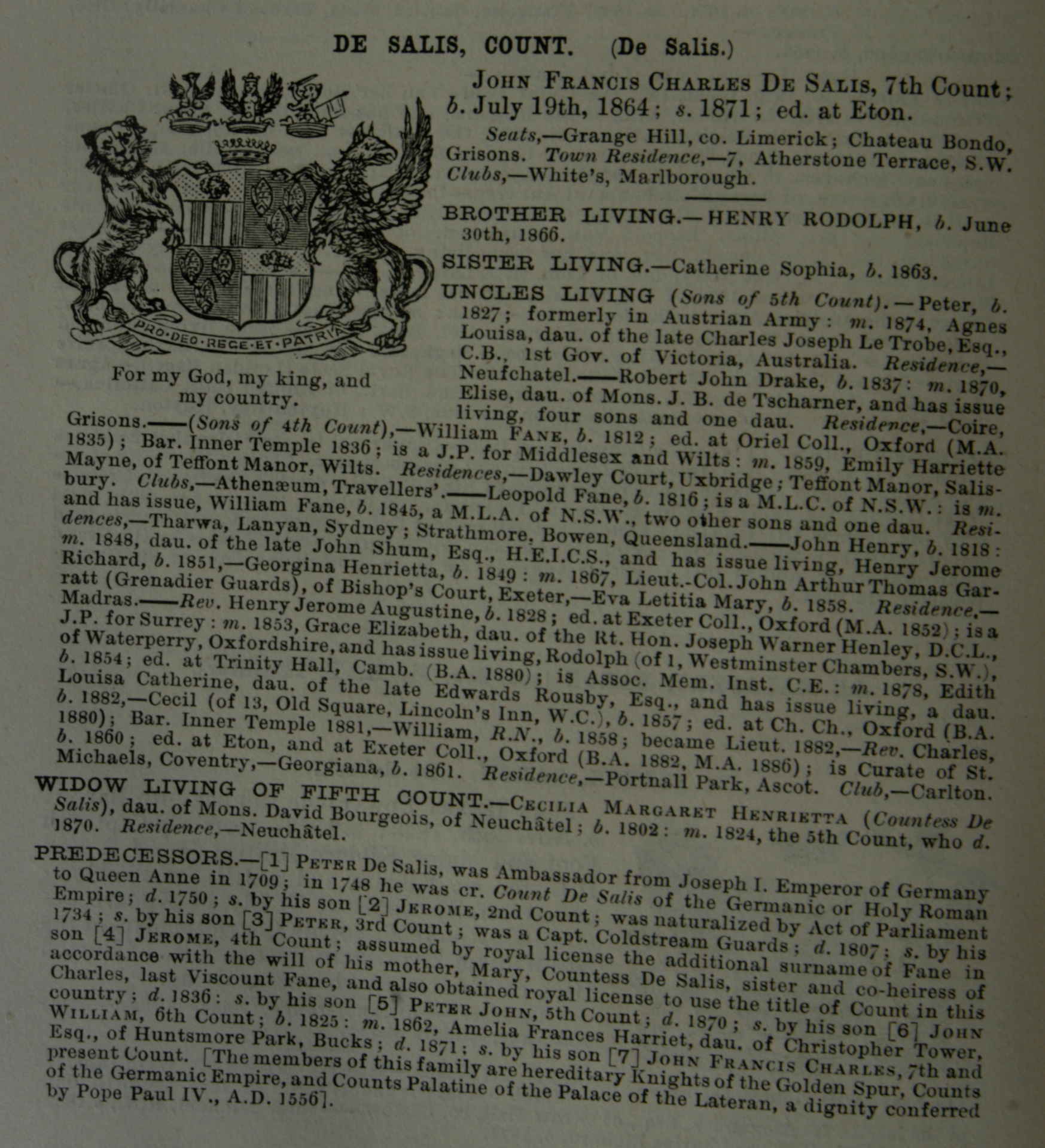 Photograph (by me, R. de Salis, Rodolph (talk) 18:41, 6 October 2015 (UTC)) of the Count De Salis page of the 1888 edition of Debrett's Peerage, page 822.